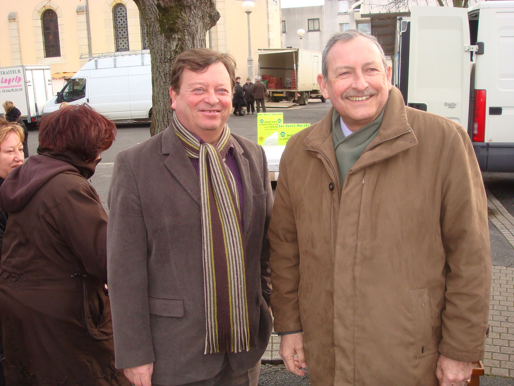 Christian Chapron mayor of Torcy